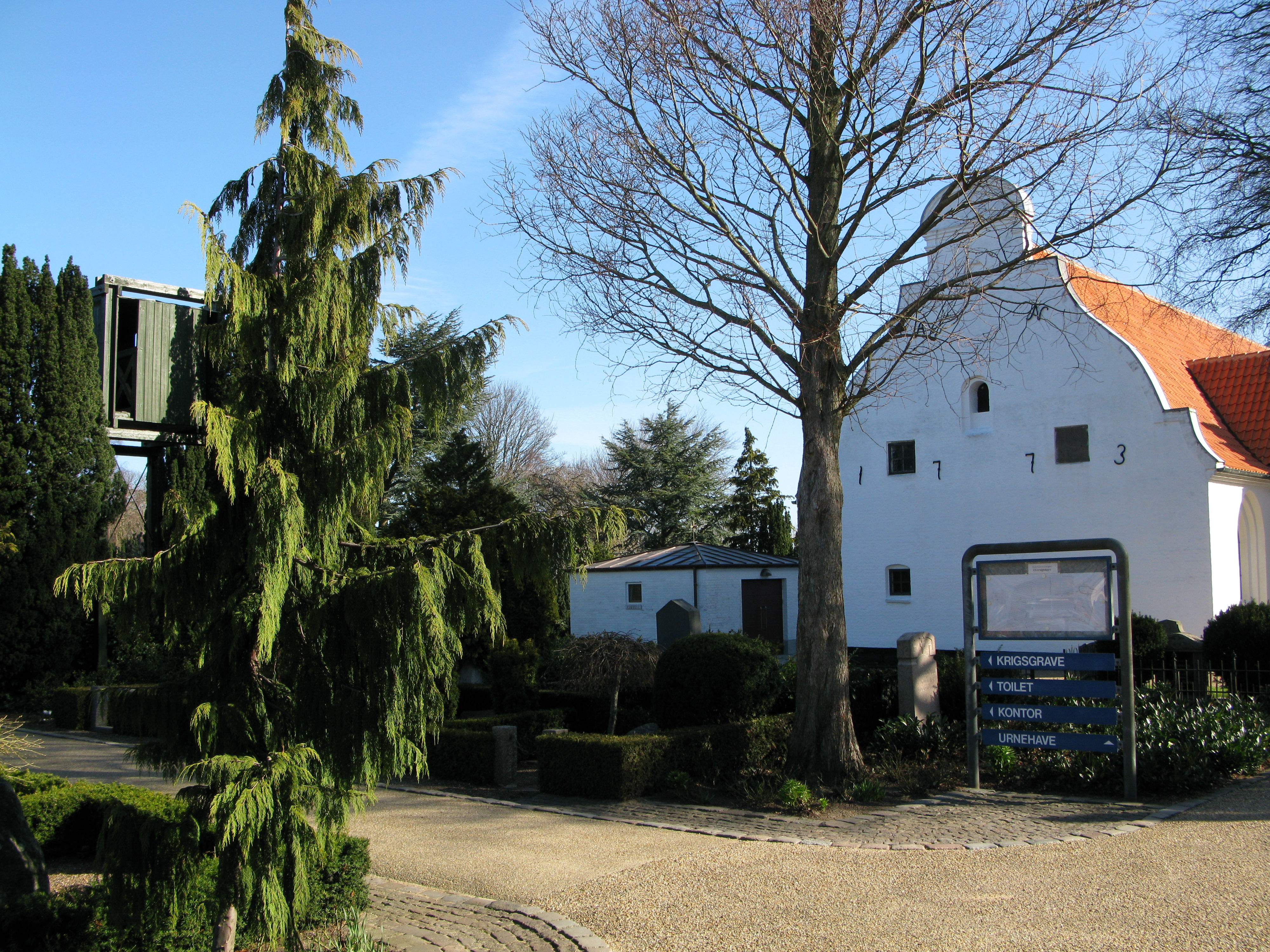 Fladstrand Church in Frederikshavn deaconry, Diocese Aalborg